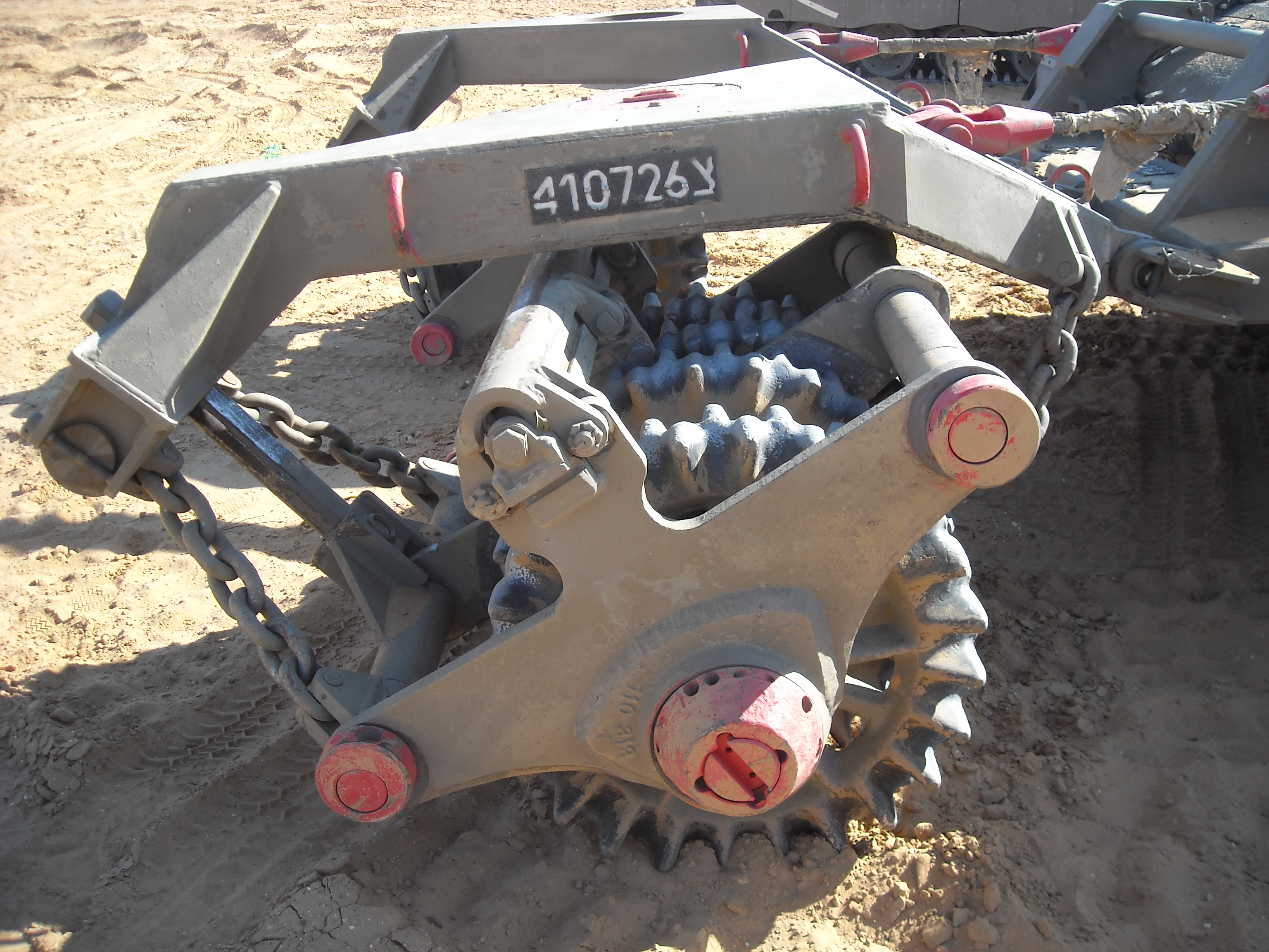 Mine roller